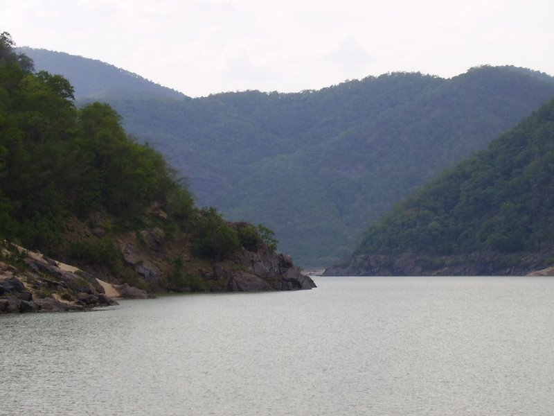 Papikonda Andhra Pradesh, Godavari